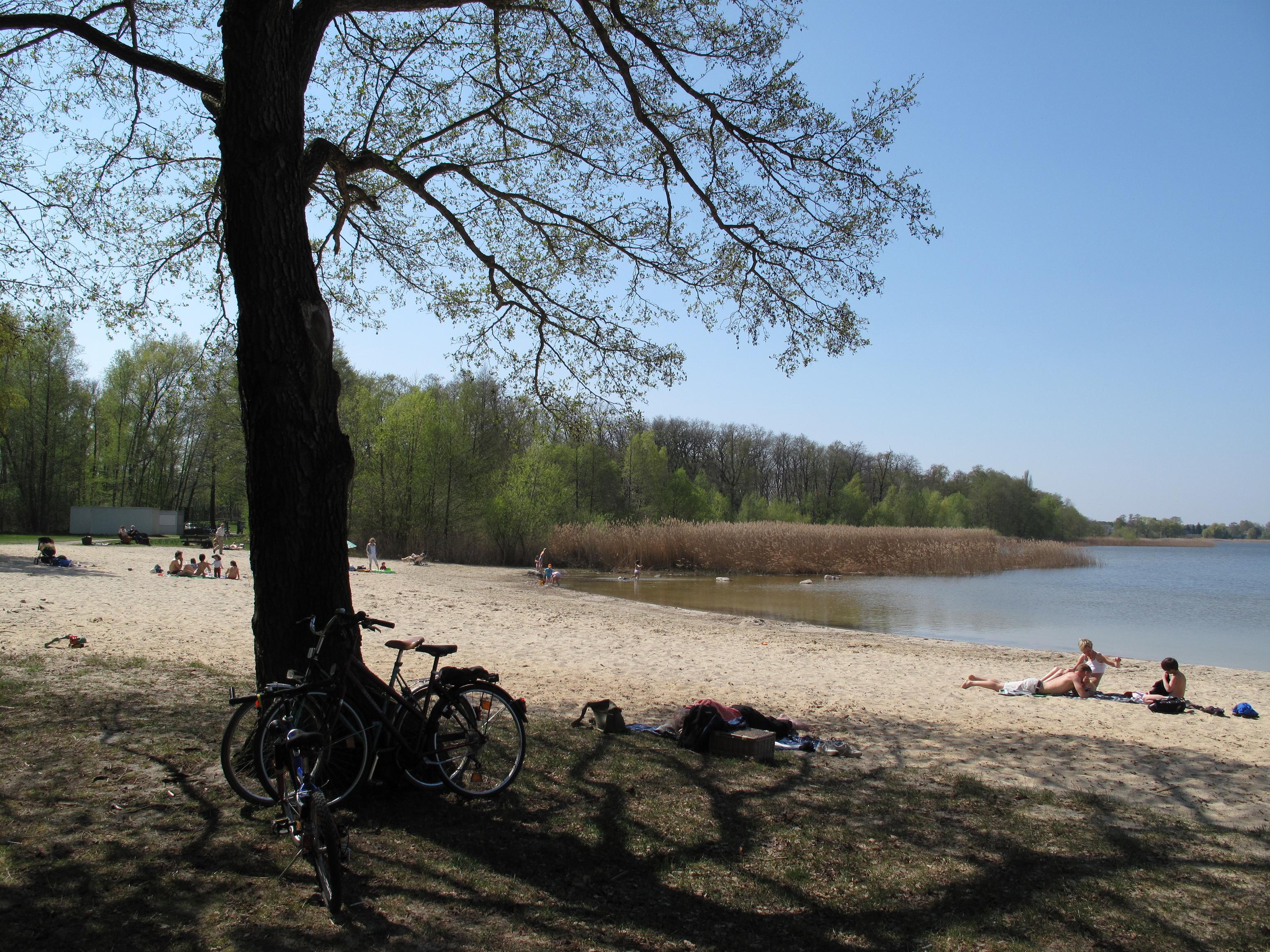 Kähnsdorfer Strand (beach) at the Großer Seddiner See. The Großer Seddiner See is a glacial lake in the nature park Nuthe-Nieplitz in Germany, Brandenburg, district Potsdam-Mittelmark, and covers 2,18 km². The lake is situated in the municipalities Seddiner See and Michendorf.